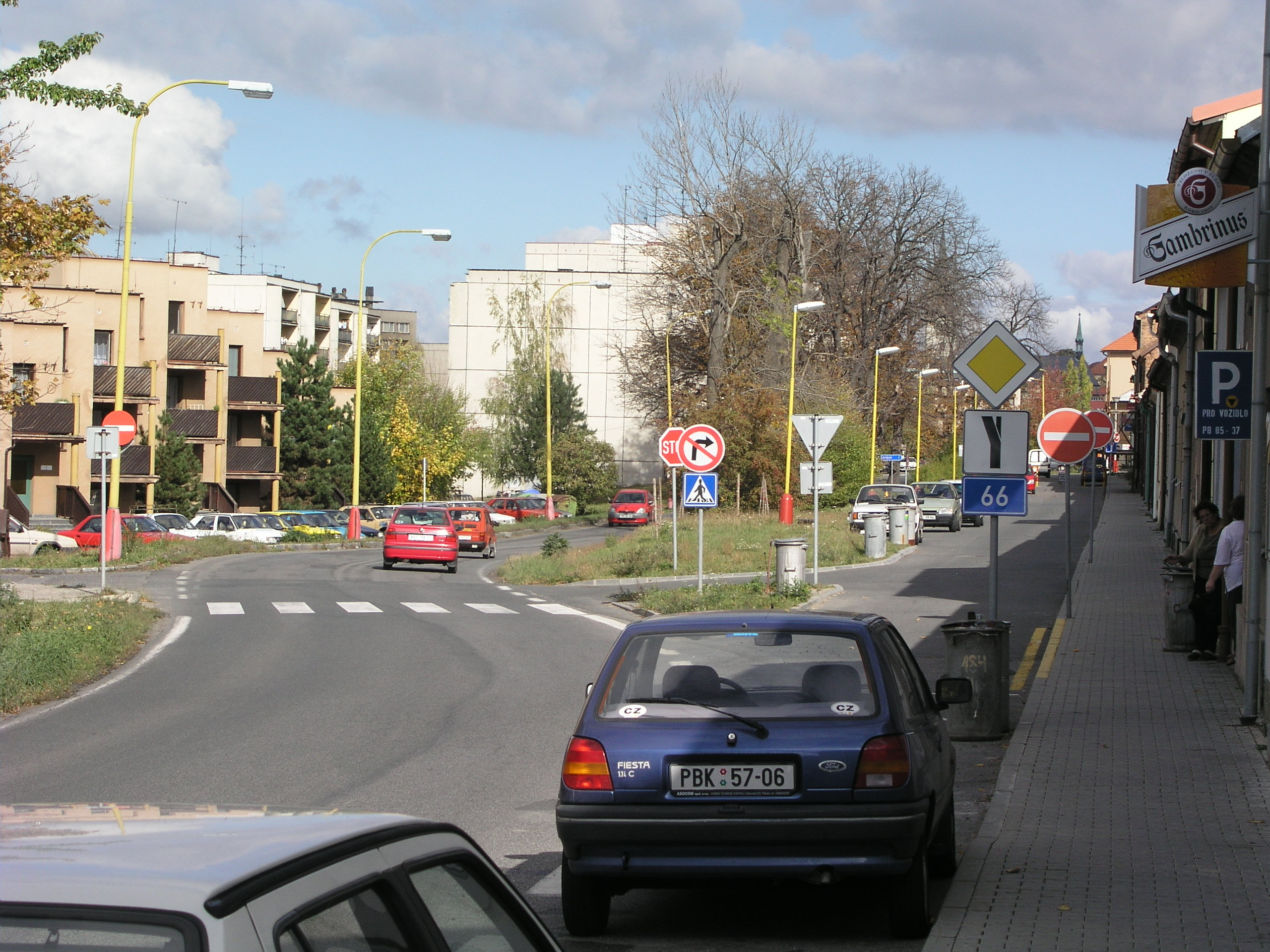 Road no. 66. Příbram III, the Czech Republic.